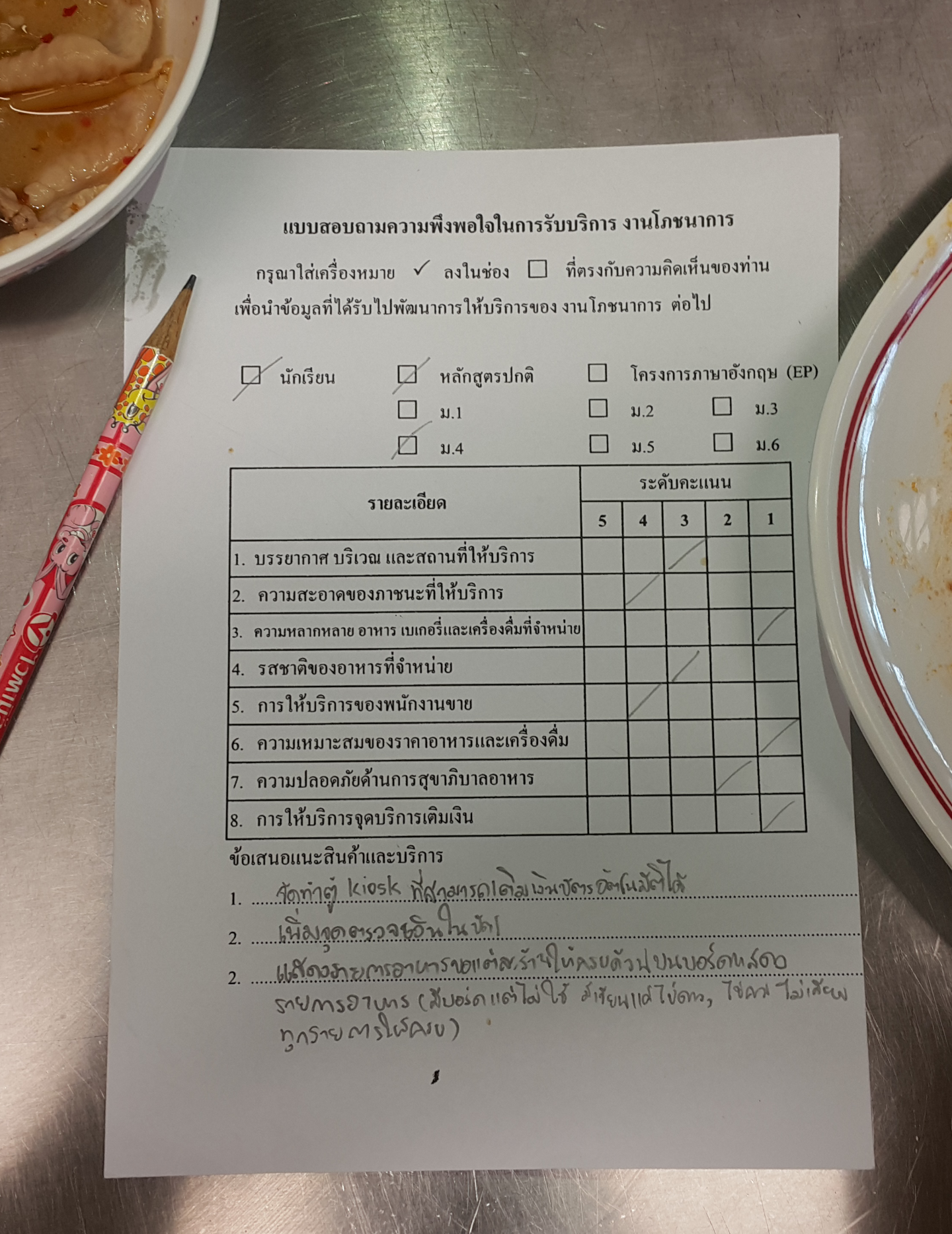 A basic questionaire in Thai language